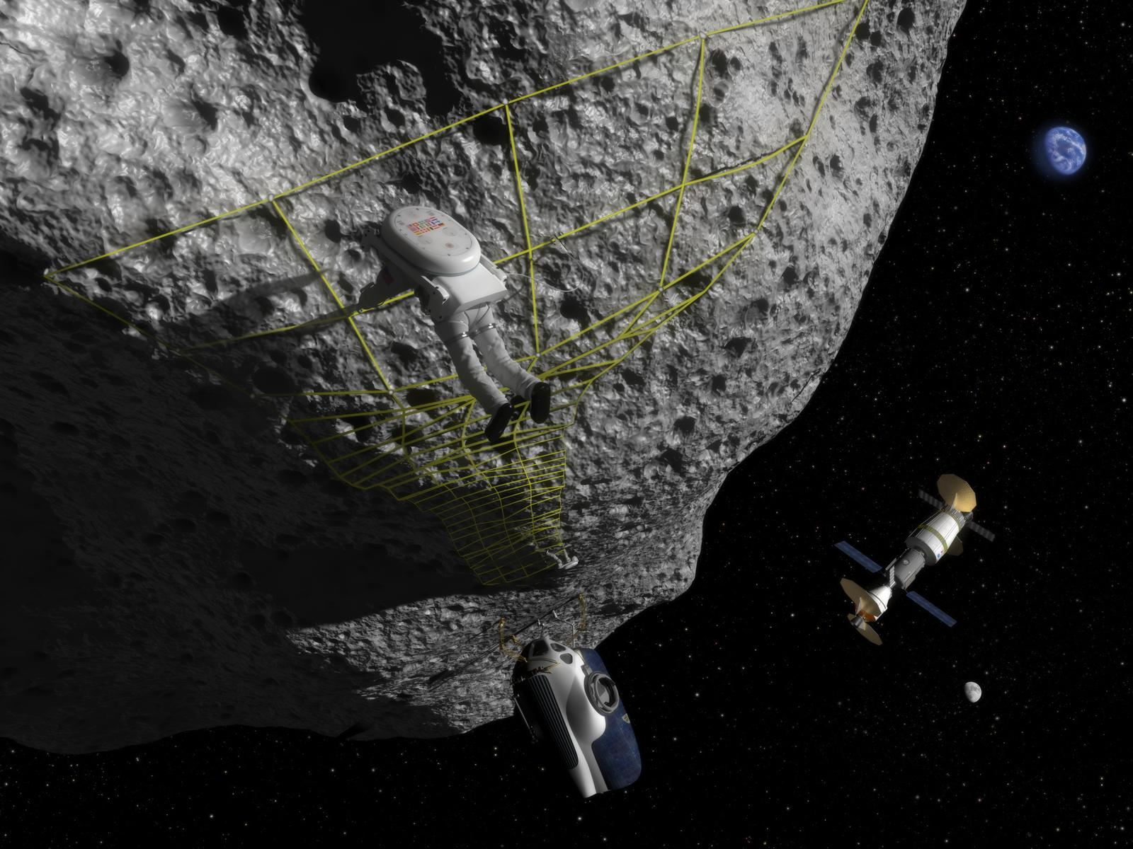 In this artist's concept, an astronaut performs a tethering maneuver at an asteroid. The Space Exploration Vehicle (SEV) is close by, with the Orion Multi-Purpose Crew Vehicle (MPCV) docked to a habitat in the background.